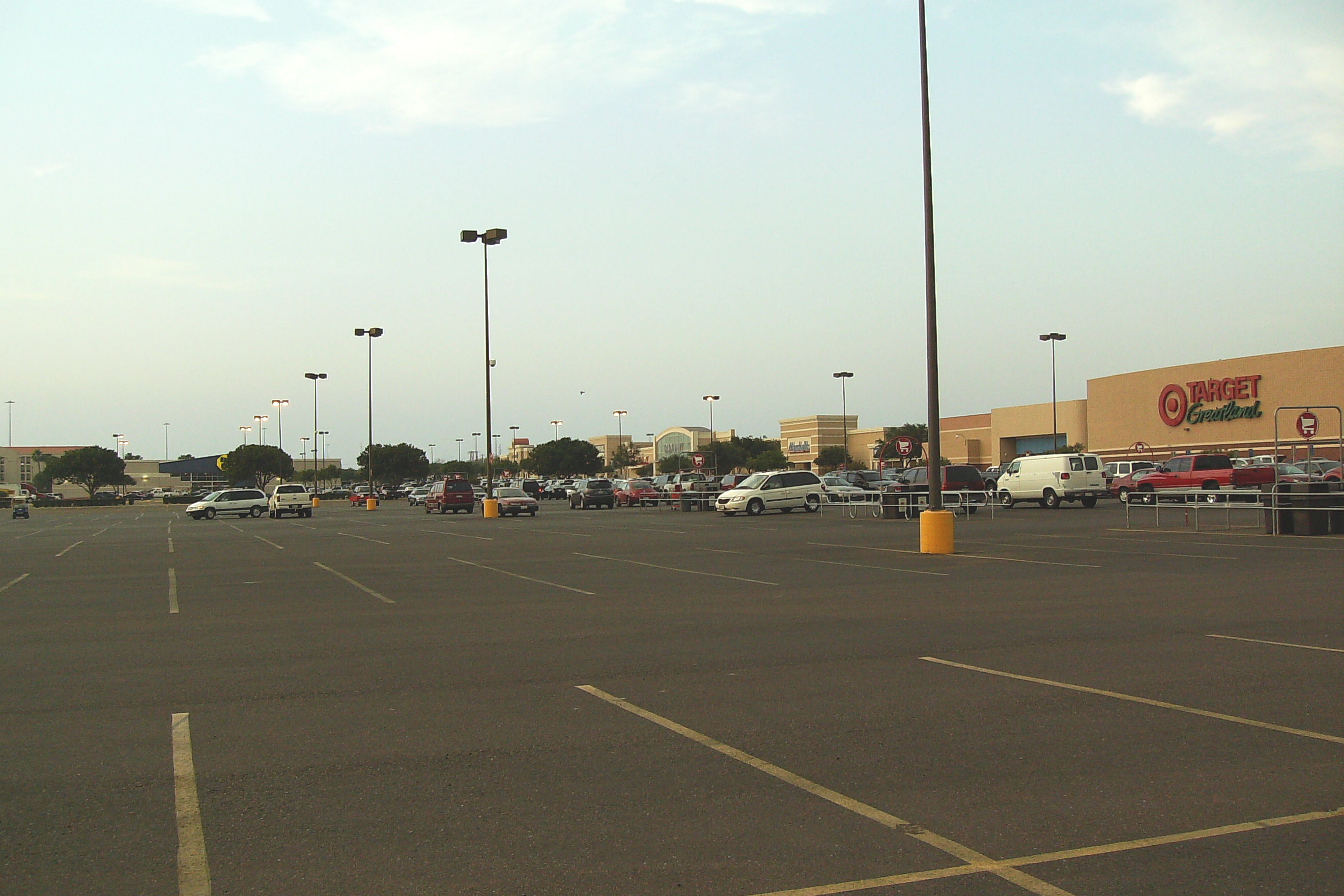 North Creek Plaza in Laredo, Texas